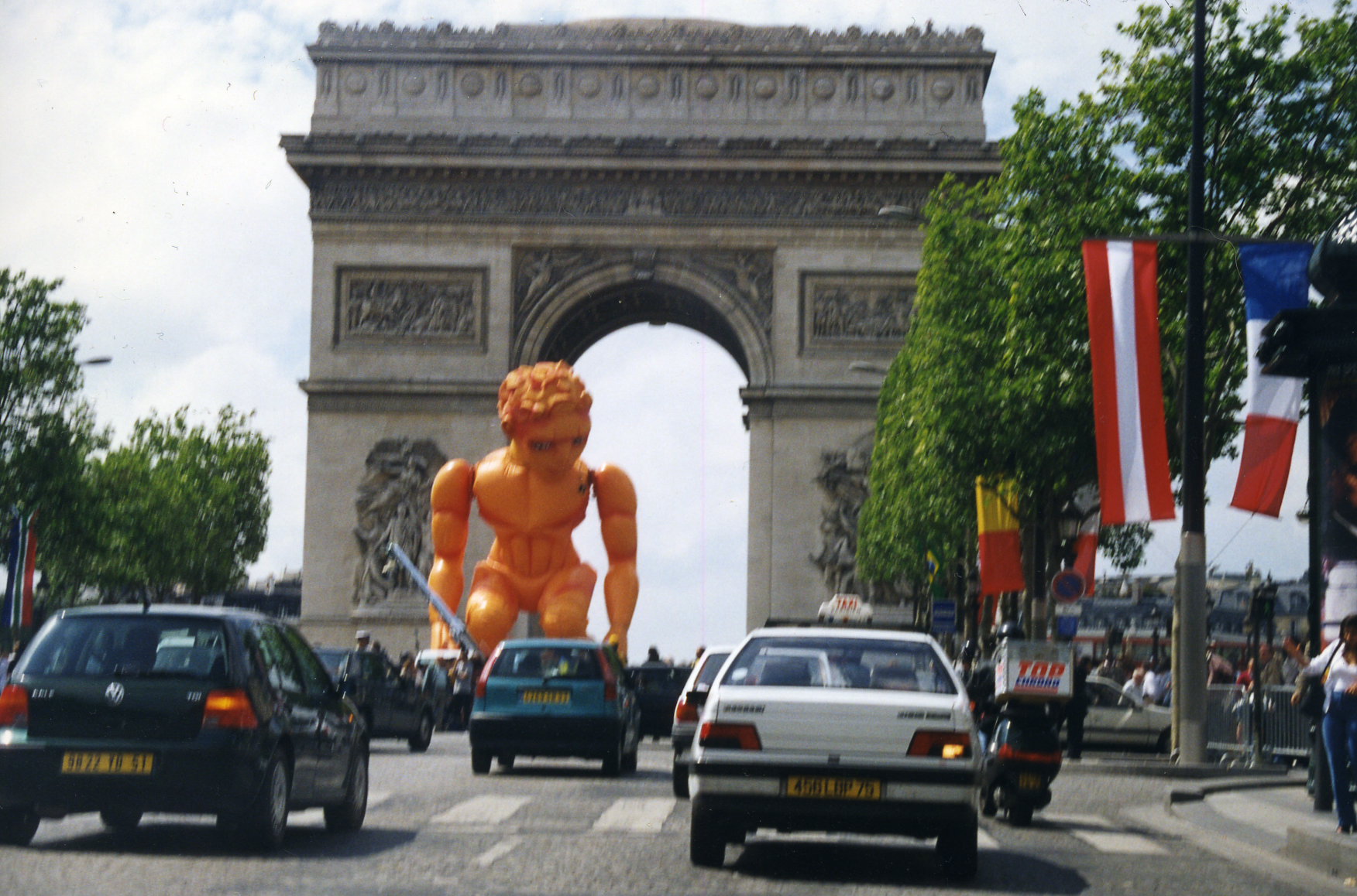 soccerhead2: inflatable giant strolling down the champs elysees. the picture shows Pablo representing America.